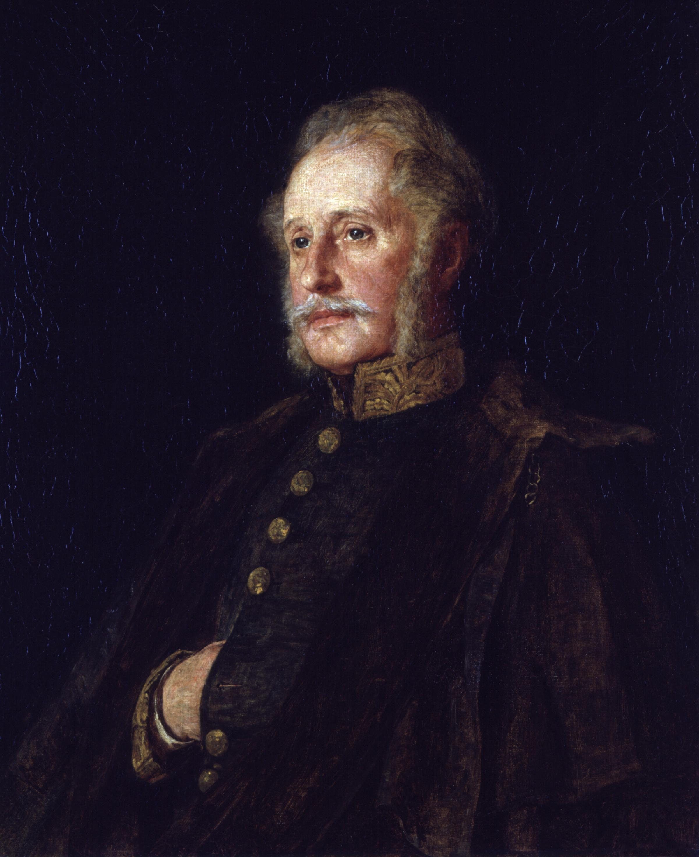 Brian Houghton Hodgson, by Louisa Starr-Canziani (died 1909). Hodgson (1 February 1800 or 1801[1] – 23 May 1894[2]) was an early naturalist and ethnologist working in British India and Nepal where he was an English civil servant. All images in this batch have been confirmed as author died before 1939 according to the official death date listed by the NPG.